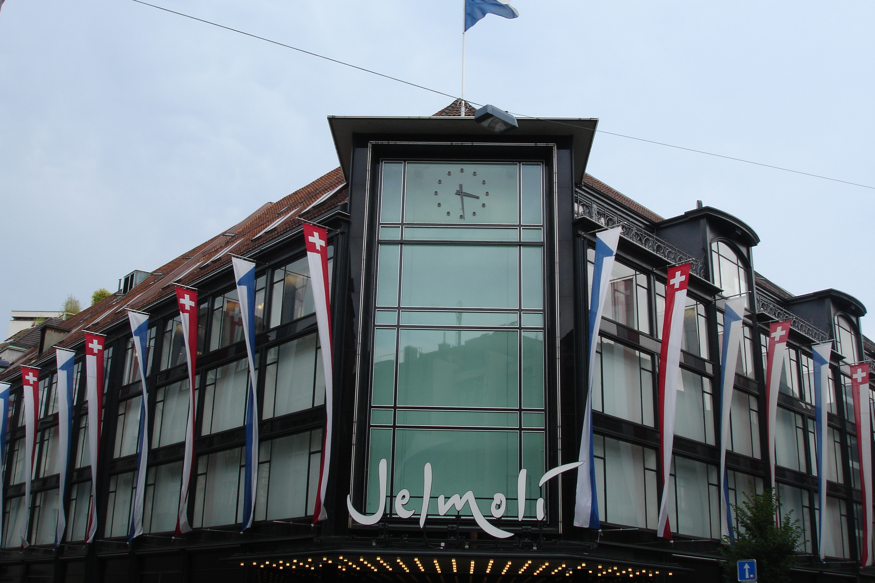 Zurich's Jelmoli department store facade